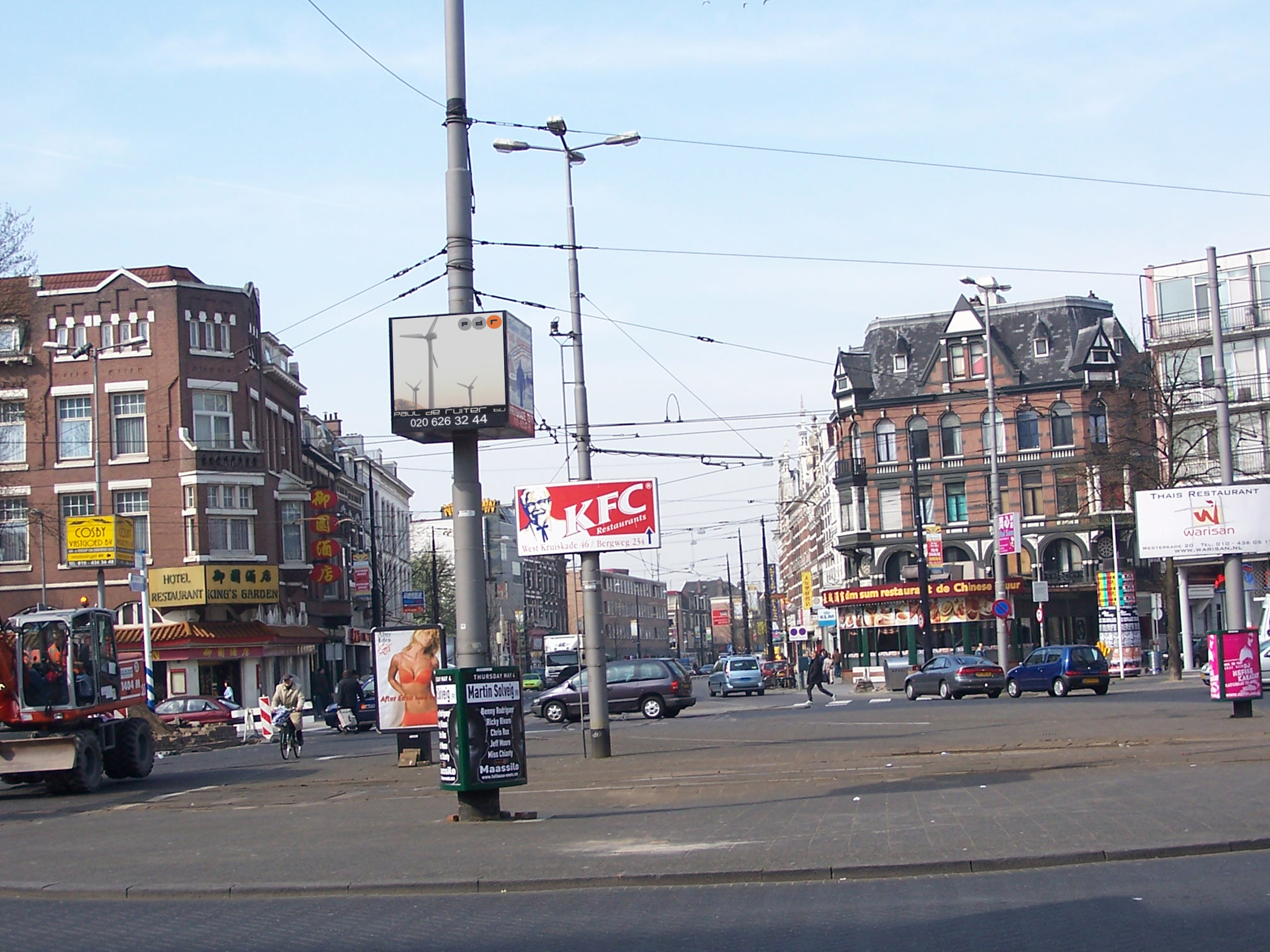 Own work, Author: Guanghui Jiang taken on 24, april, 2006.